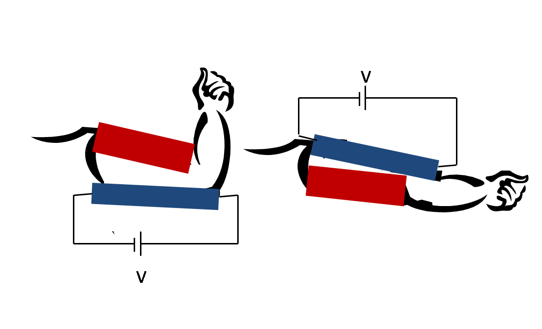 A cartoon drawing of an arm with EAP muscles.